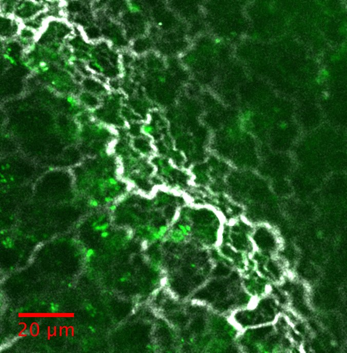 Second harmonic imaging of collagen fibres, shown in white in liver against autofluorescence from the surrounding cells, shown in green captured using a multiphoton microscope.